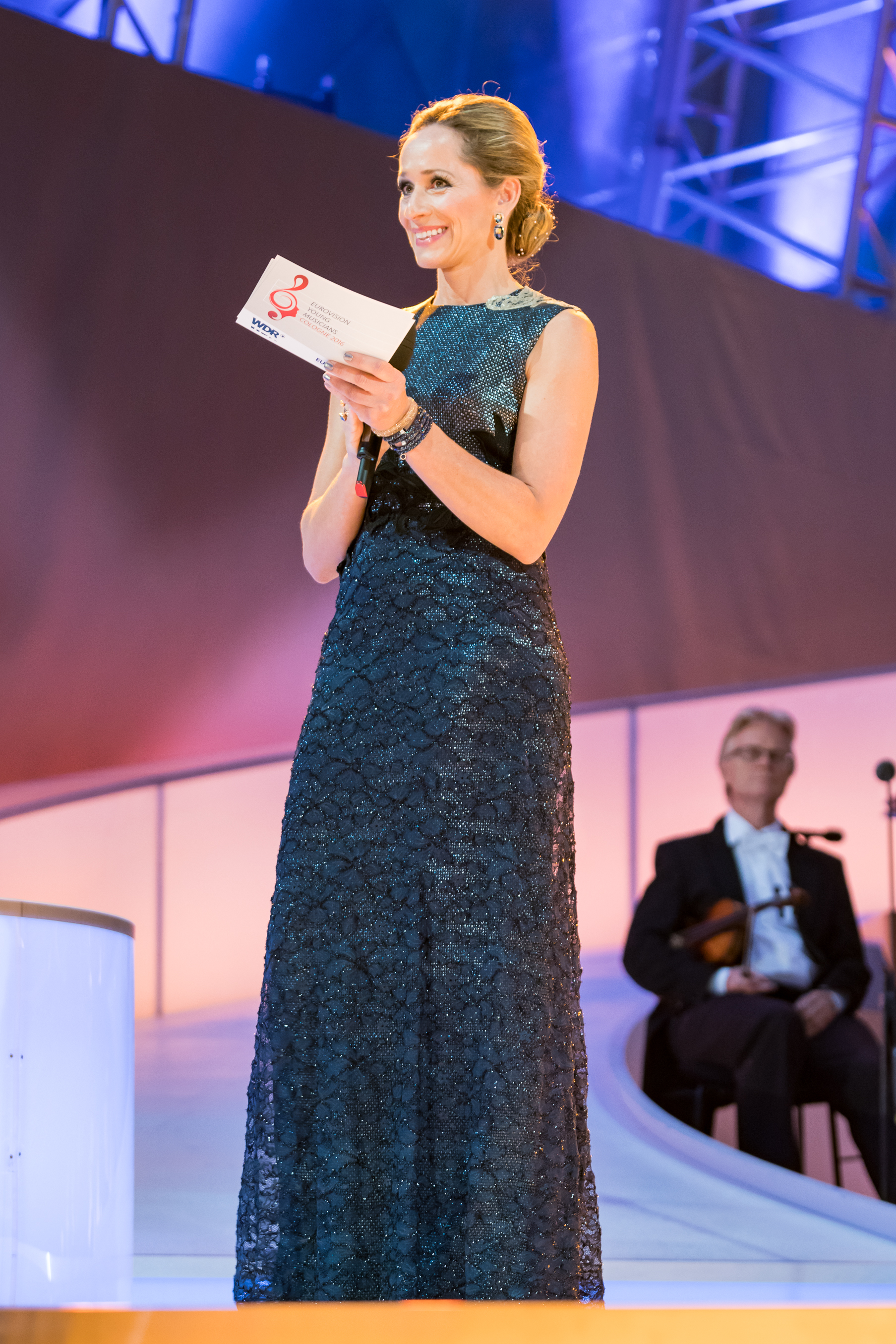 Eurovision Young Musicians 2016 in Cologne, Rehearsal on September 2nd 2016: Tamina Kallert